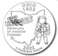 The Ohio quarter, the second quarter of 2002 and seventeenth in the series, honors the state's contribution to the history of aviation, depicting an early aircraft and an astronaut, superimposed as a group on the outline of the state. The design also includes the inscription "Birthplace of Aviation Pioneers." The claim to this inscription is well justified -- the history making astronauts Neil Armstrong and John Glenn were both born in Ohio, as was Orville Wright, co-inventor of the airplane. Orville and his brother, Wilbur Wright, also built and tested one of their early aircraft, the 1905 Flyer III, in Ohio. On May 1, 2000, Governor Bob Taft requested design concepts from Ohioans for the state's quarter. The Governor established an 11-member Ohio Commemorative Quarter Program Committee that requested ideas from all Ohioans and received 7,289 submissions. The Committee's six favorite candidates were posted on its website for vote. Some 40,000 votes later, the top four concepts were submitted to the Mint. These include state symbols, aviation and aerospace, birthplace of aviation and the spirit of invention. From the United States Mint's candidate designs, Governor Taft selected the "Birthplace of Aviation Pioneers."